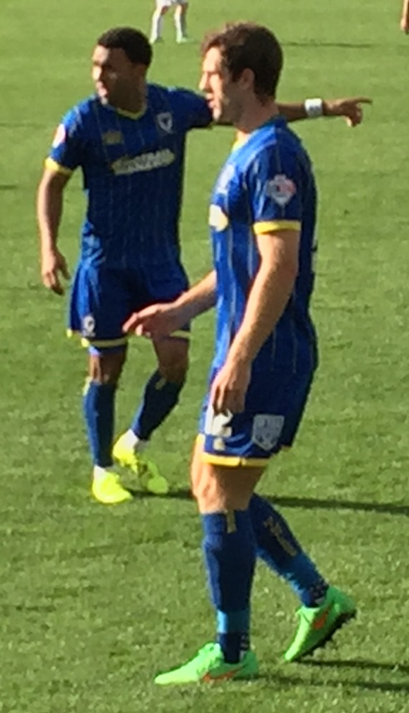 AFC Wimbledon players Jonathan Meades and Andy Barcham during the League Two match against Notts County at Kingsmeadow on 19 September 2015